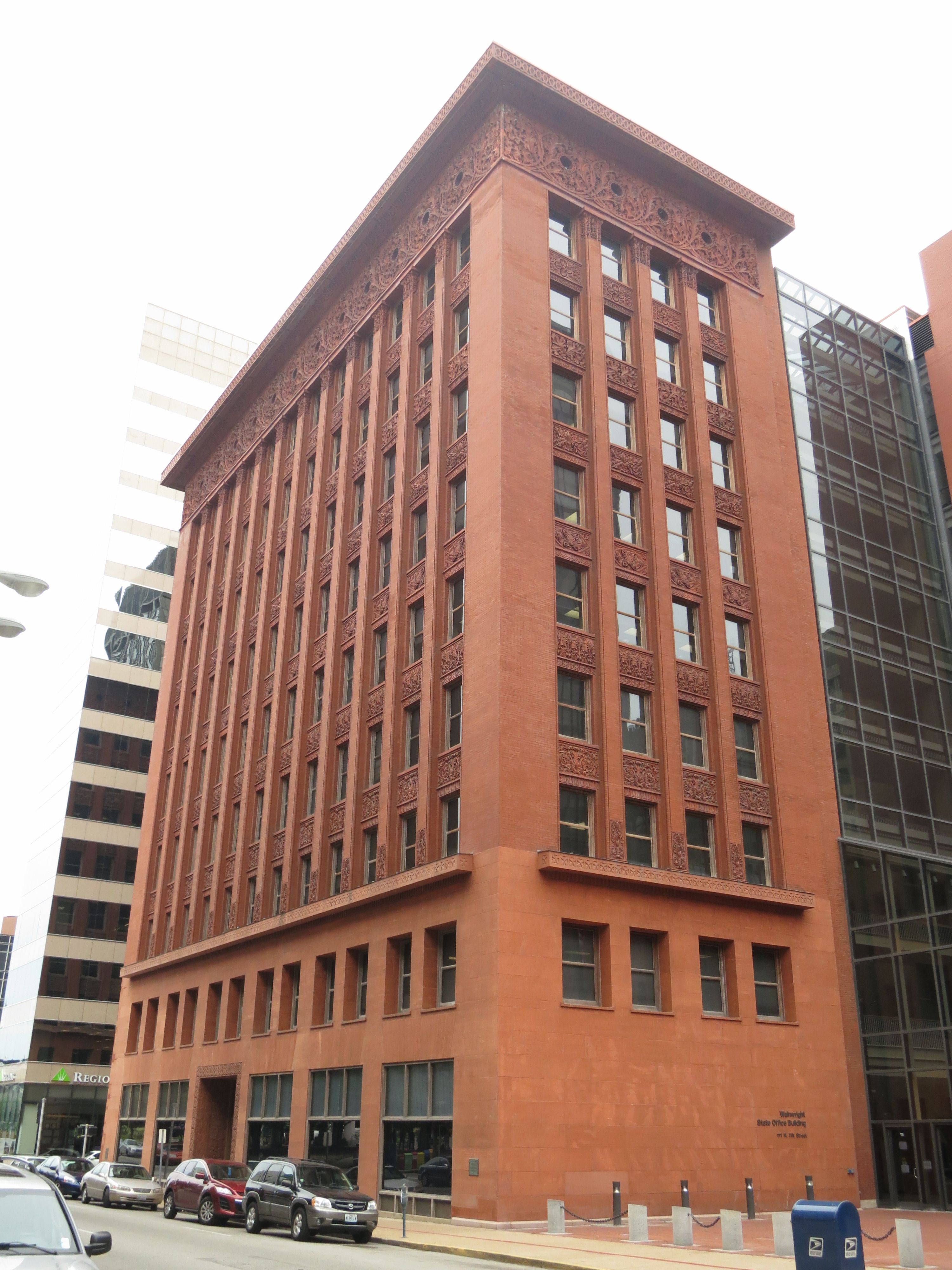 The Wainwright Building in St. Louis in 2012.